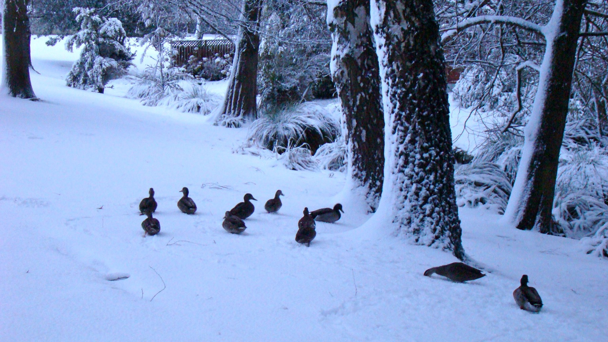 July snowfall in Christchurch (the park adjacent to Cobham Intermediate)